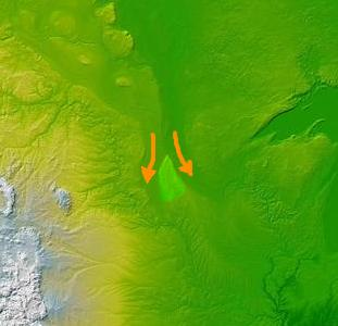 Map of the Coteau des Prairies region and plateau in the Great Plains. An ecoregion of the Temperate grasslands, savannas, and shrublands Biome, in the United States.